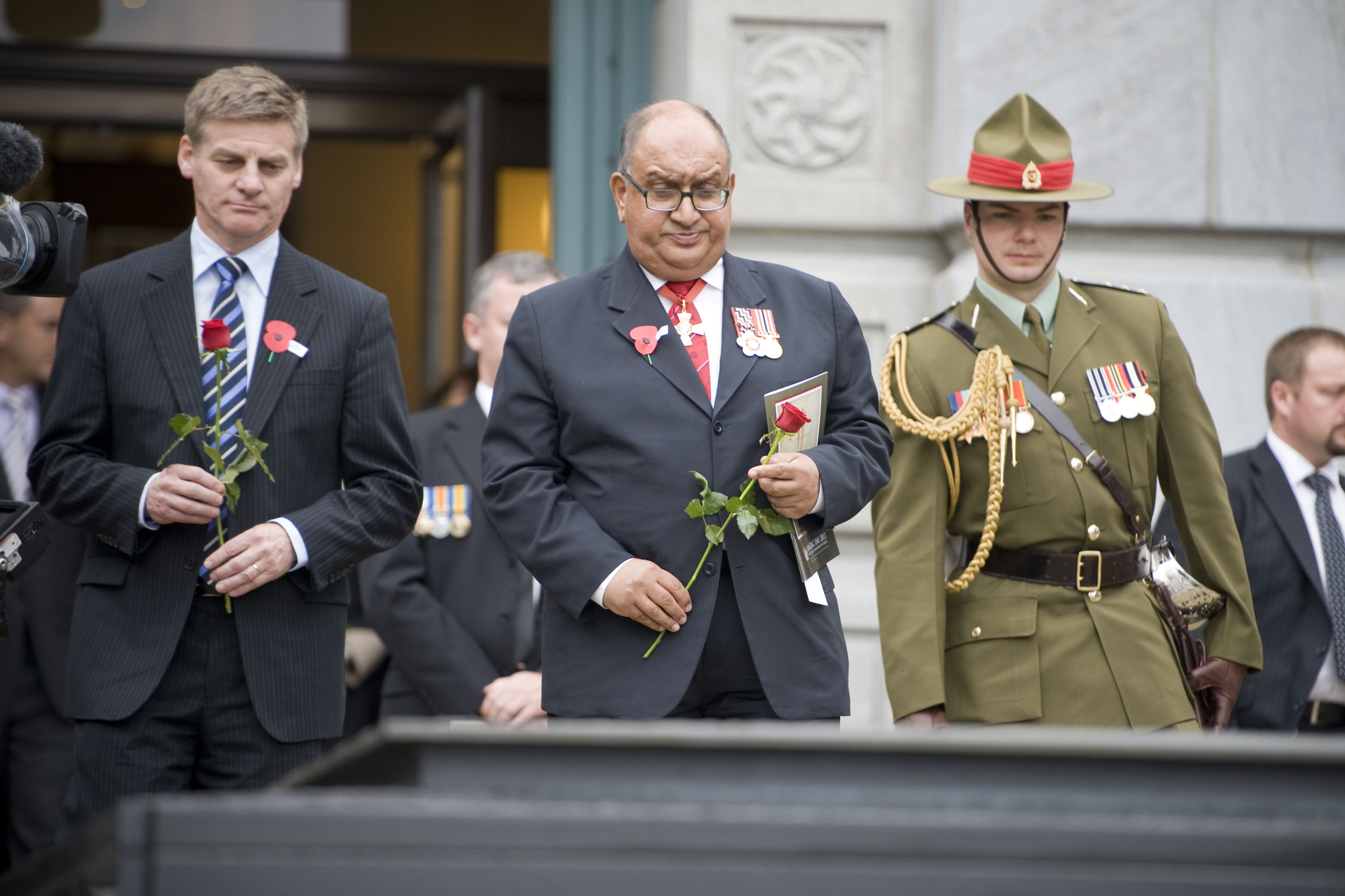 ANZAC Day service at the National War Memorial Wellington. The Govenor General, Hon Sir Anand Satyanand and Deputy Prime Minister Bill English lay flowers on the Tomb of the Unknown warrior